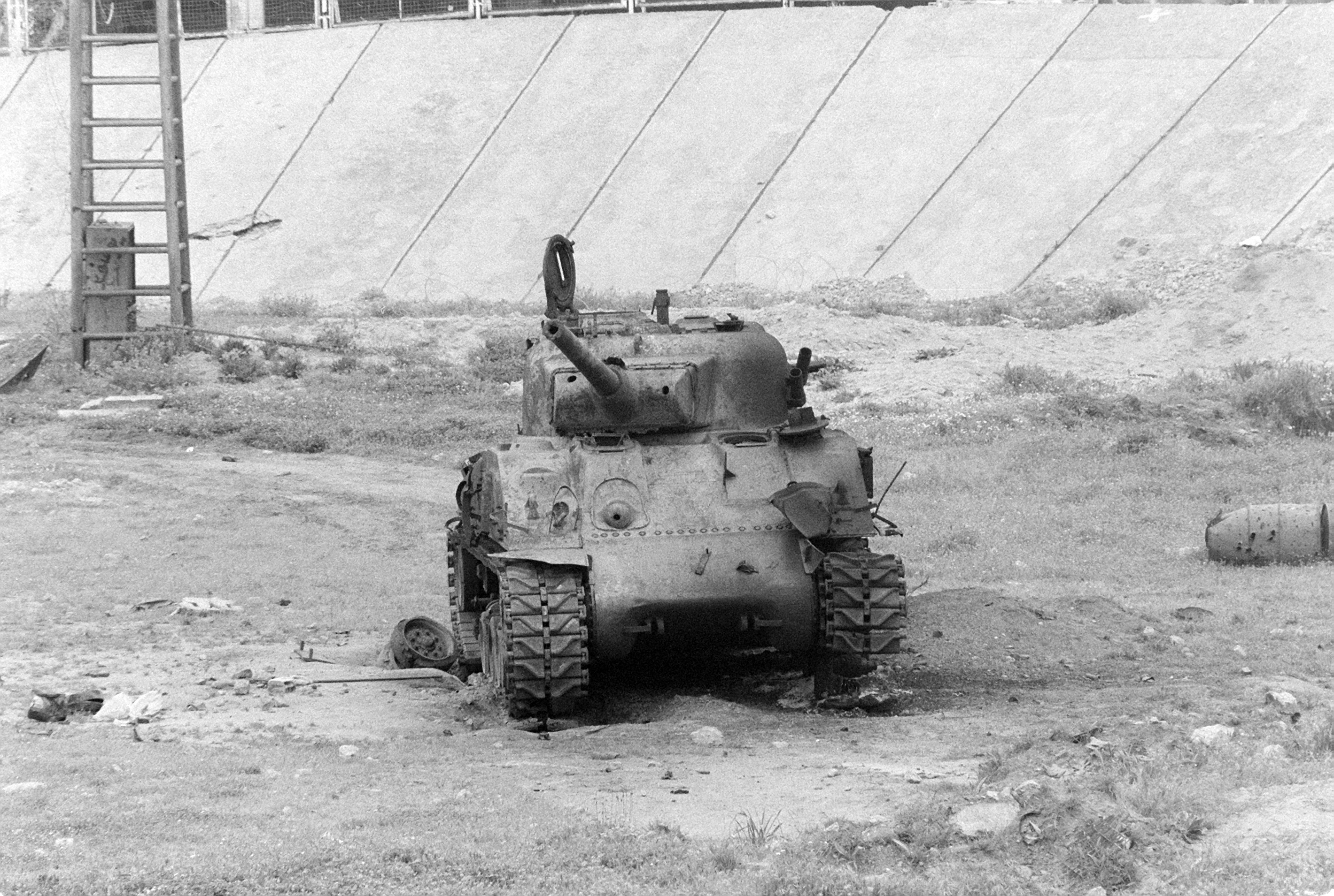 A wrecked Sherman in Lebanon. The tank was probably a M50 Isherman ( see the tracks (HVSS suspension), cast lower front hull and gun mantlet )used by militias in Lebanon.